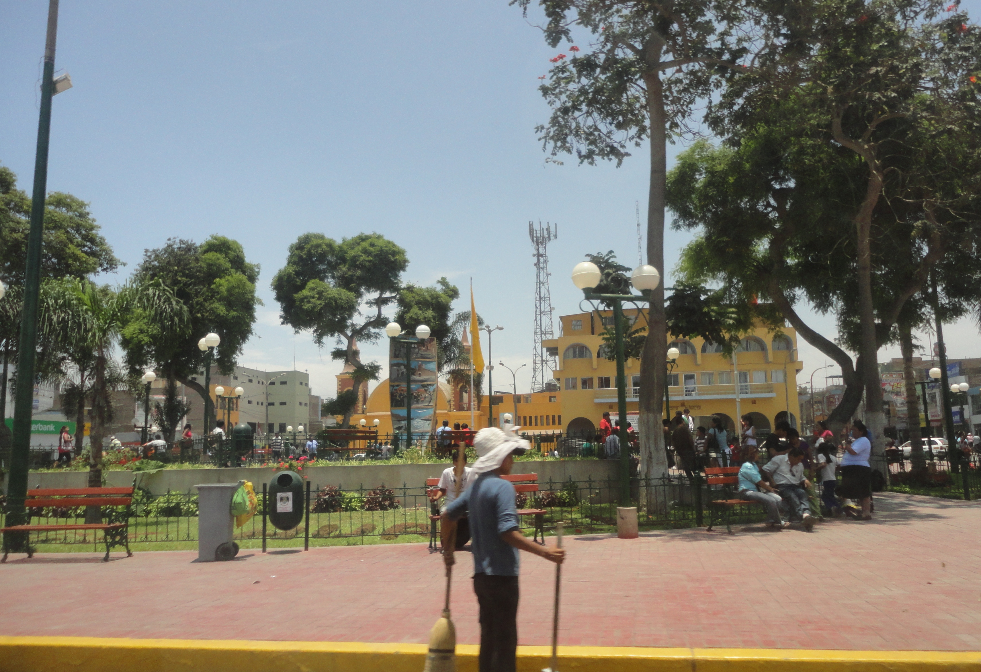 Main Square in Huaral, Lima-Peru.